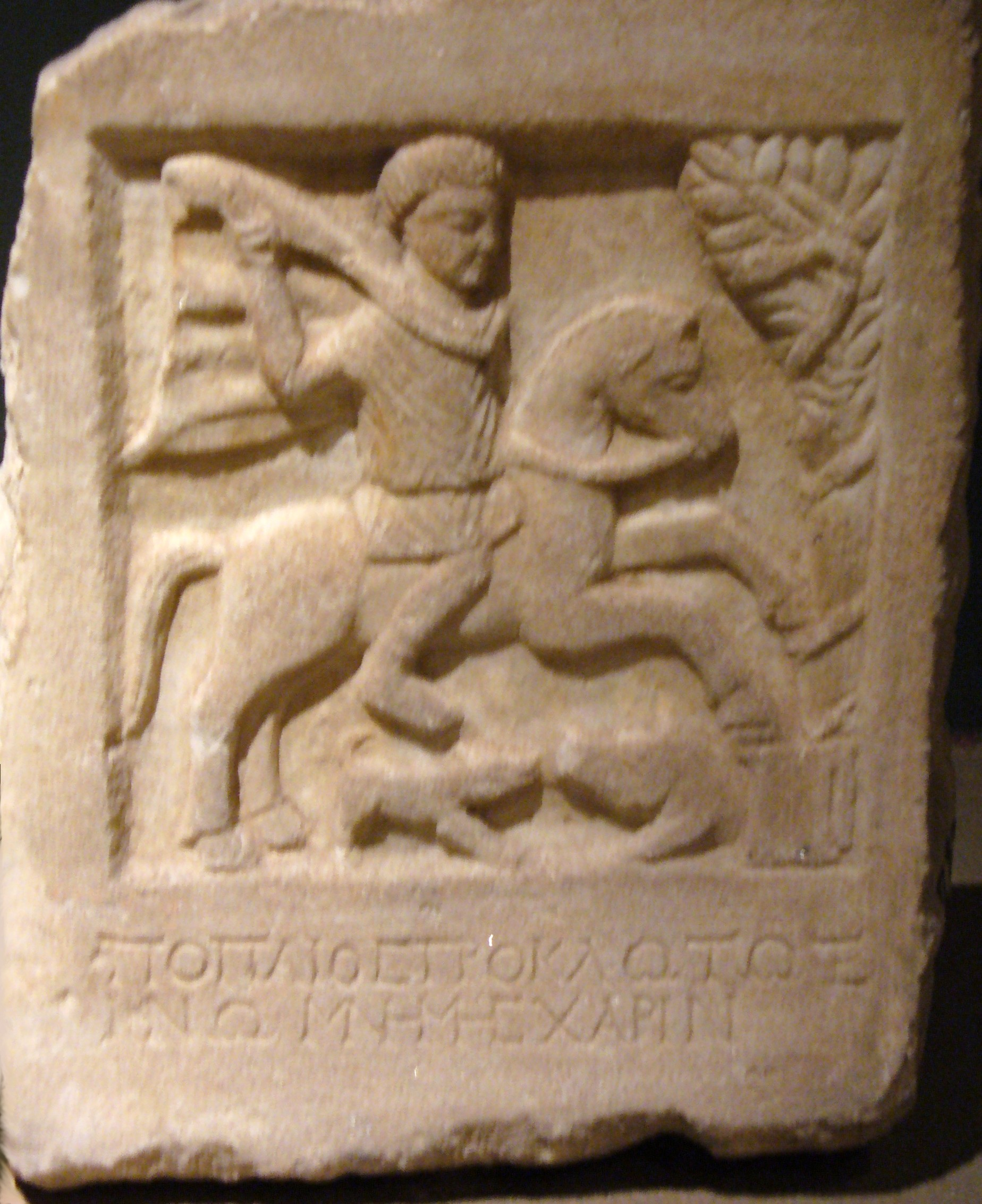 A cherished Thracian motif: the heroic horseman. At the Istanbul Archaeological Museum